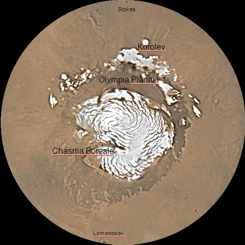 Map of Mare Boreum Mars quadrangle. The small, colored rectangles represent image footprints for the narrow angle camera on the Mars Global Surveyor. Some are about 1 mile wide, the otheers are about 2 miles wide.